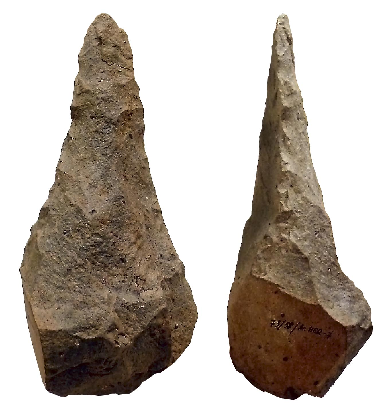 Micoquian handaxe